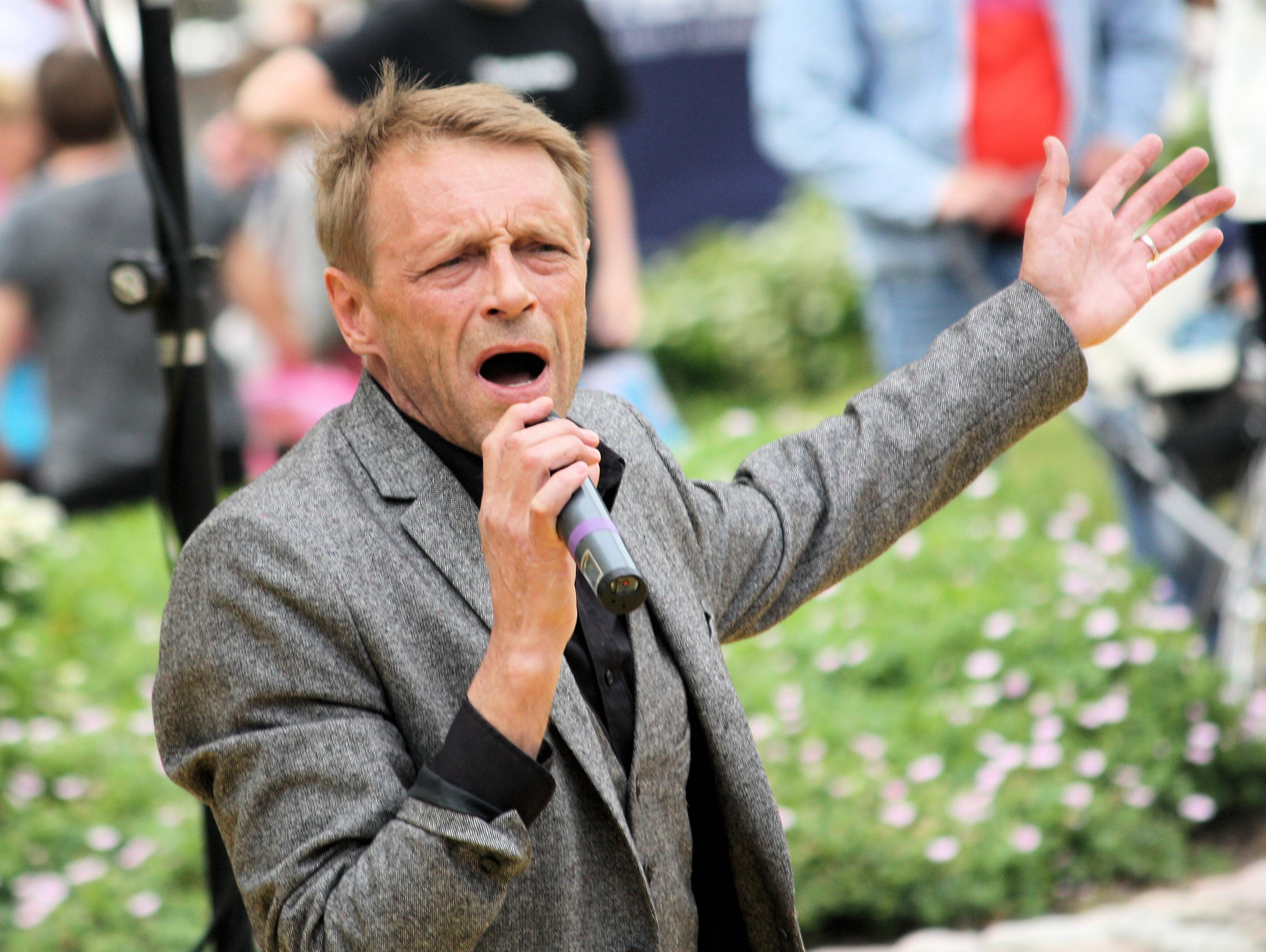 Finnish actor Ilkka Heiskanen on Aurinkomäki stage - Kerava Day 2013